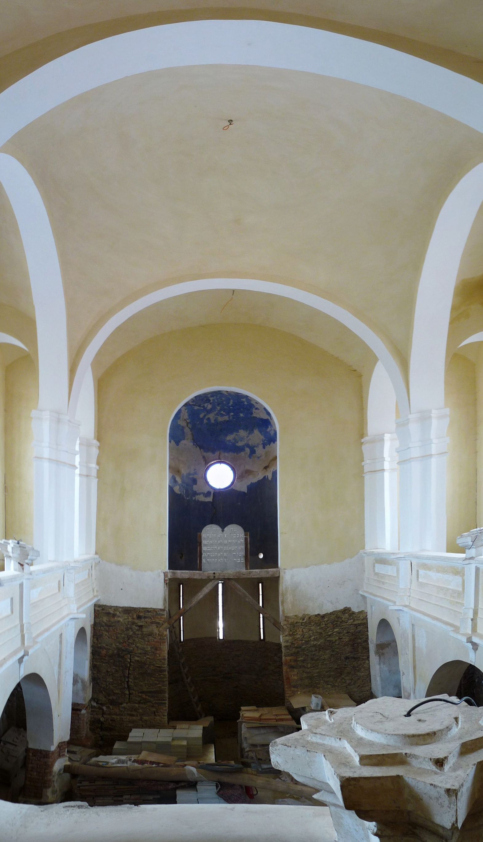 Interior of the synagogue in the market town of Nová Cerekev, Pelhřimov District, Czech Republic.